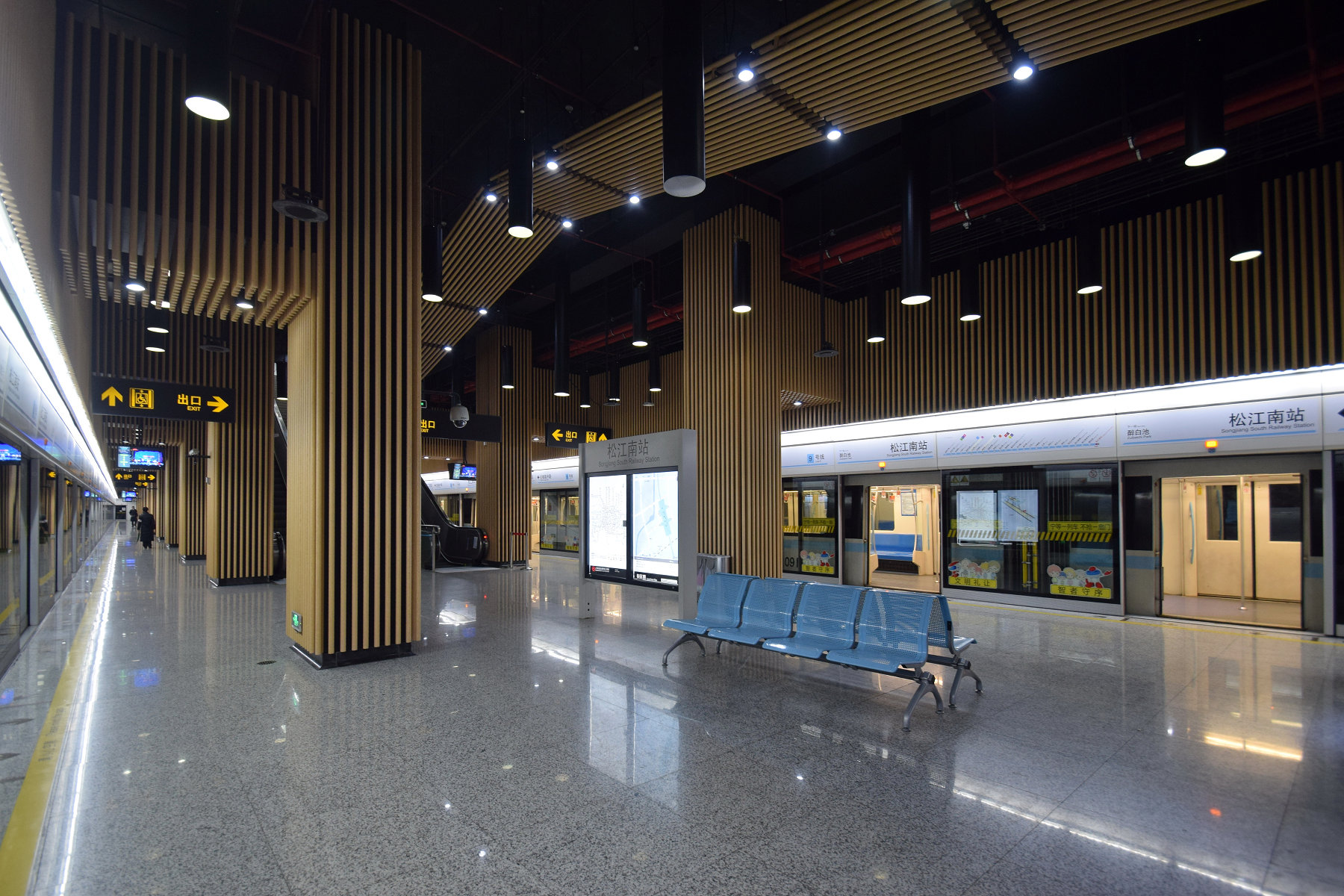 Line 9 Platform of Songjiang South Railway Station Station, Shanghai Metro